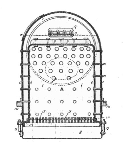 Portable engine firebox, transverse section (Army Service Corps Training, Mechanical Transport, 1911).jpg